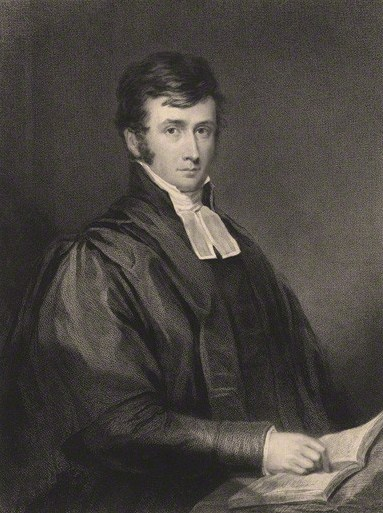 Portrait of William Dodsworth (1798–1861), English Anglican priest, later a Roman Catholic lay writer.